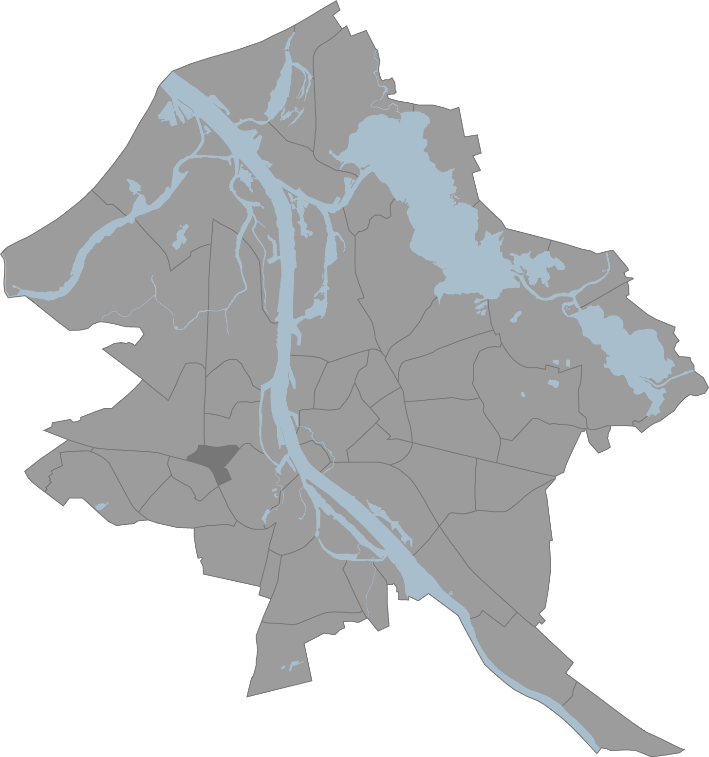 A map of Riga, Latvia with the eponymous commune highlighted